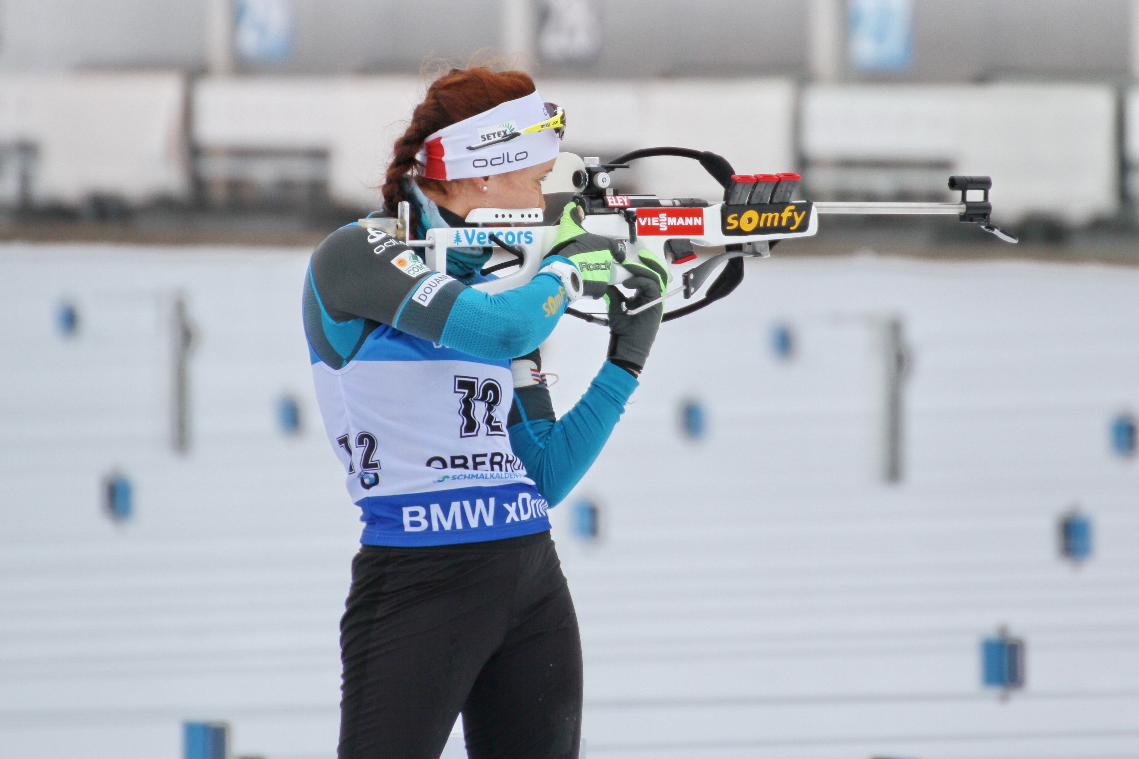 2018 Oberhof Biathlon World Cup - Sprint Women